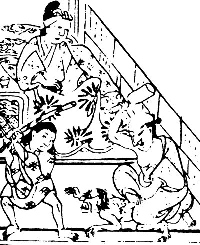 Onigo (鬼子) from the Kiizōtanshū (奇異雑談集)